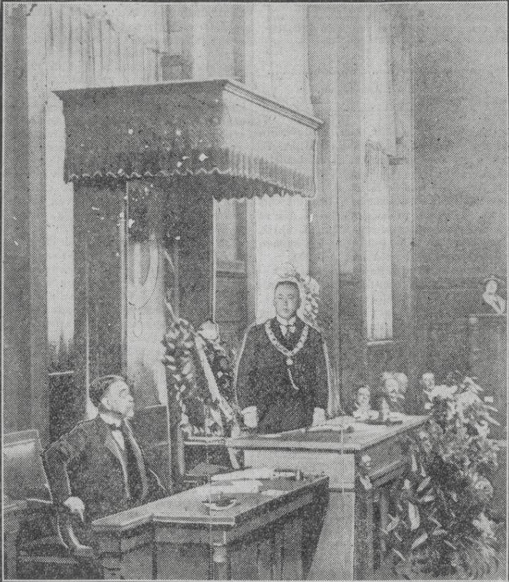 Johannes Wytema being installed as mayor of Rotterdam